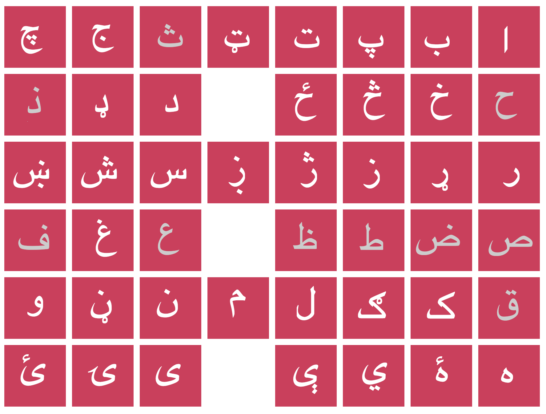 Chart with 45 letters of the Pashto Alphabet. Letters in grey represent those letters whose original Arabic pronunciation is not pronounced in Pashto speech and is often replaced with a Pashto phoneme; for instance: ﺫ having the sound [ð] being replaced with [z].